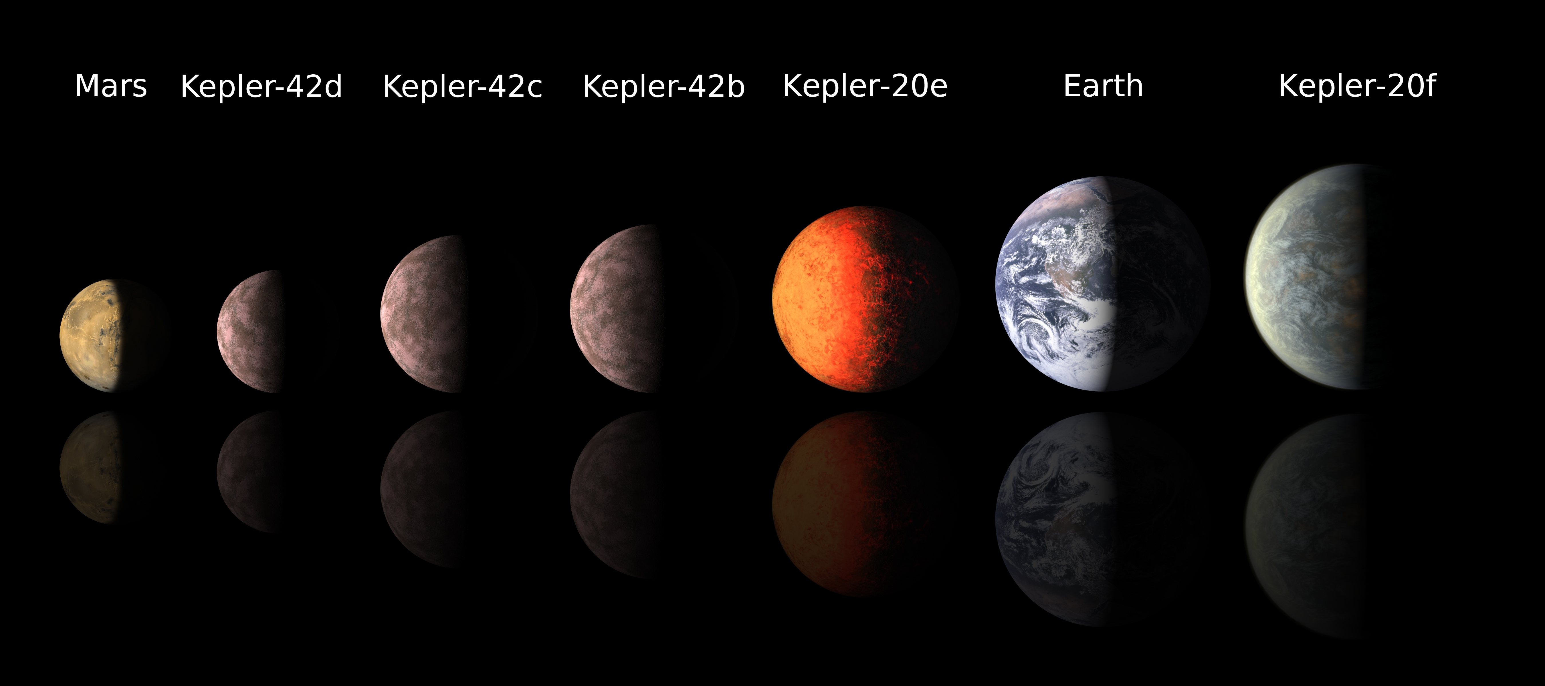 This chart compares the (at the time of their discovery) smallest known exoplanets, or planets orbiting outside the solar system, to our own planets Mars and Earth. Astronomers using data from NASA's Kepler mission and ground-based telescopes recently discovered the three smallest exoplanets known to circle another star, called Kepler-42b, Kepler-42c and Kepler-42d (formerly KOI-961.01, KOI-961.02 and KOI-961.03). The smallest of these, Kepler-42d, is about the size of Mars with a radius of only 0.57 times that of Earth. Not long ago, in Dec. of 2011, the Kepler team announced the discovery of Kepler-20e and Kepler-20f -- the first Earth-size planets ever found outside the solar system. All five of these small exoplanets have toasty orbits close to their stars, and do not lie in the more temperate habitable zone. The ground-based observations contributing to the Kepler-42 discoveries were made with the Palomar Observatory, near San Diego, California, and the W.M. Keck Observatory atop Mauna Kea in Hawaii.